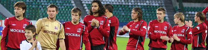 FC Moscow, Russian Premier League club.